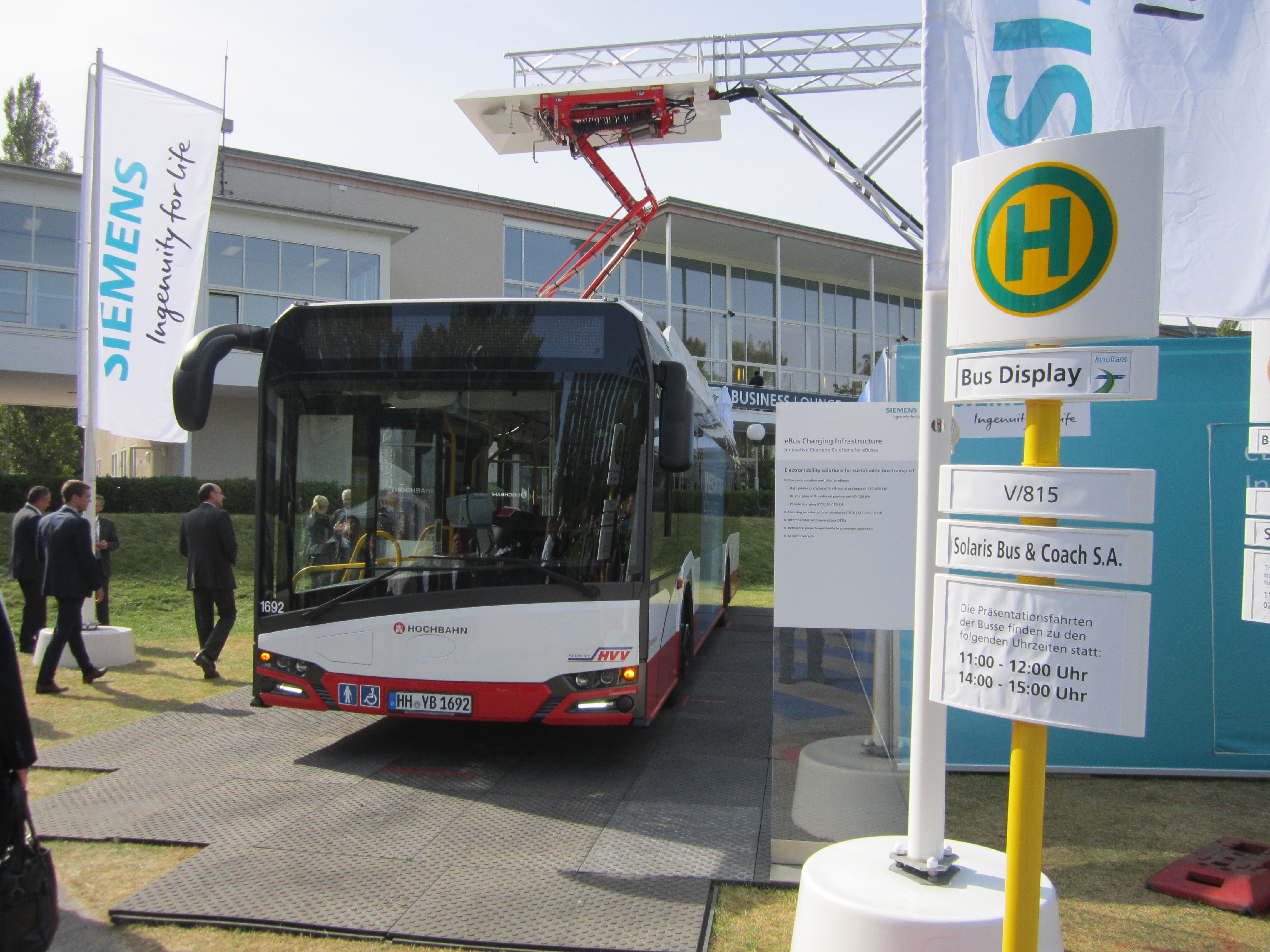 InnoTrans 2016 – Battery Bus Display